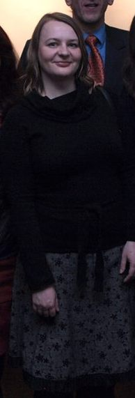 Picture of Ave Roots